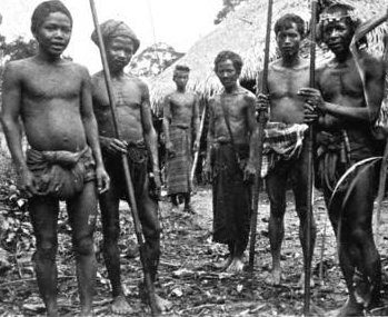 Jakun Hunting Party Blowpipe Malaysia Mongoloid